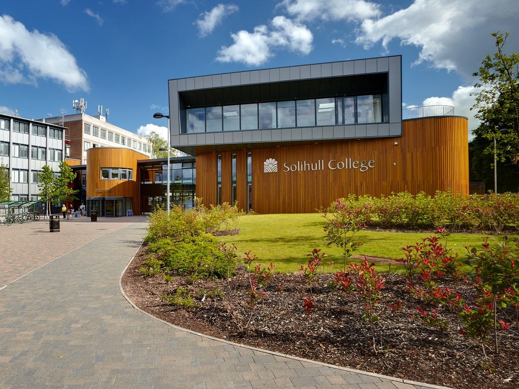 Solihull College's Blossomfield Campus